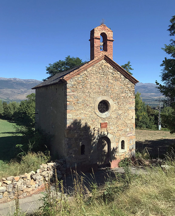 Santa Barbara chapel